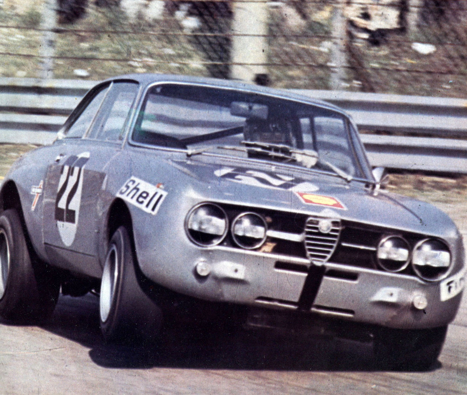 Monza (Italy), Autodromo Nazionale, March 19, 1972. Italian motor racing driver Andrea De Adamich on an Alfa Romeo Giulia 2000 GTAm of Autodelta S.p.A. at the 1972 Monza Touring Car 4 Hours — "Mario Angiolini" Trophy.